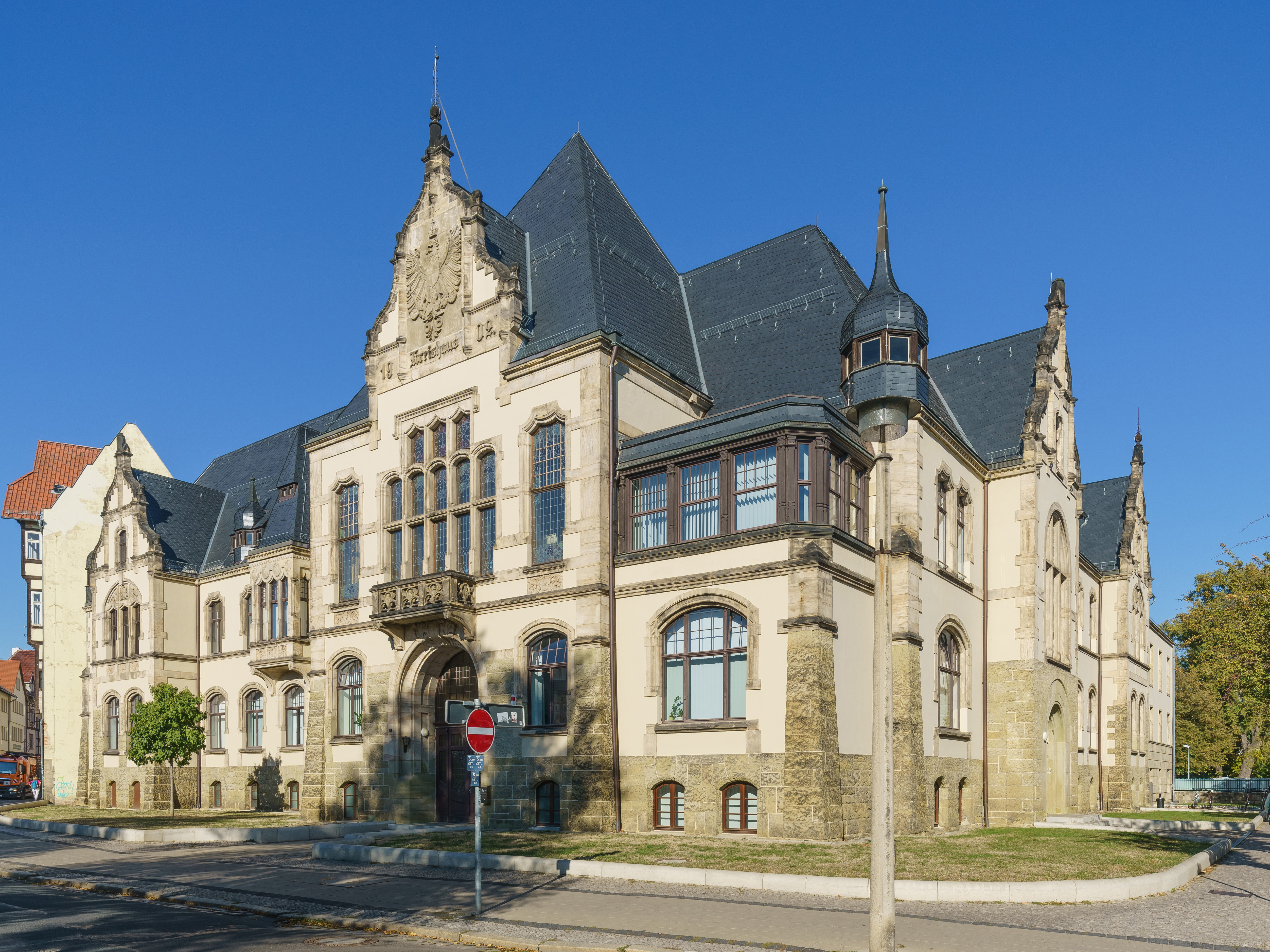 District administration building in Quedlinburg, Germany